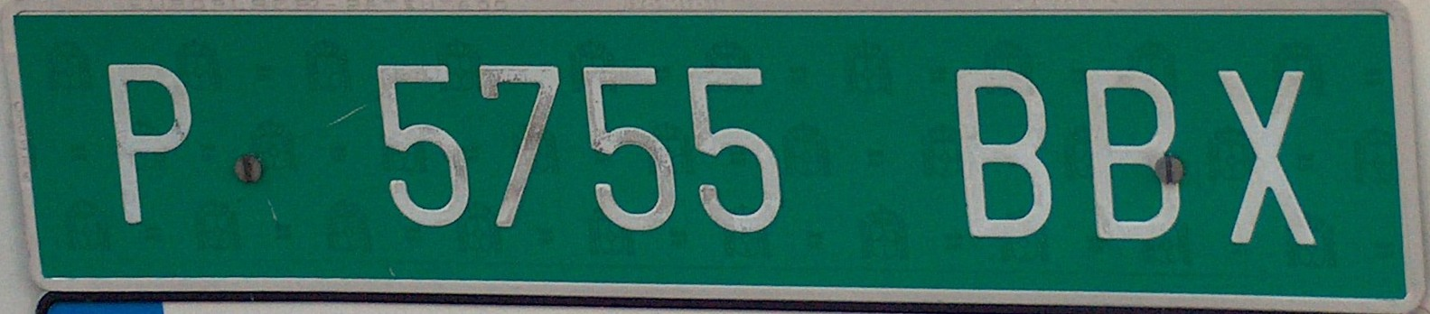 Temporary license plate from Spain